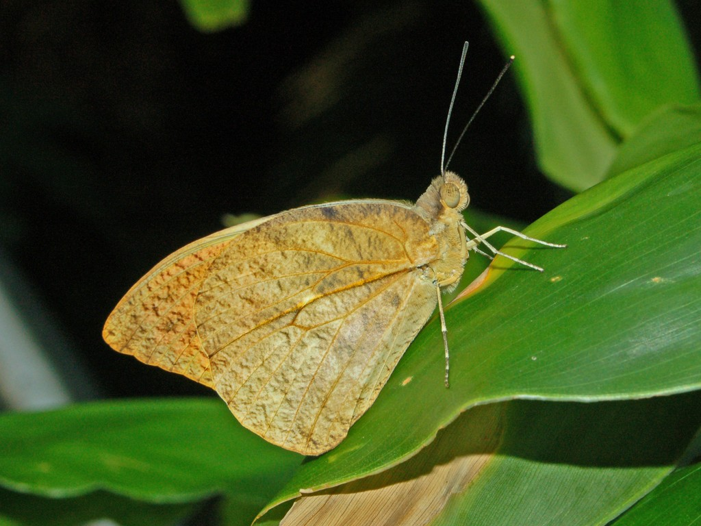 Hebomoia glaucippe aturia